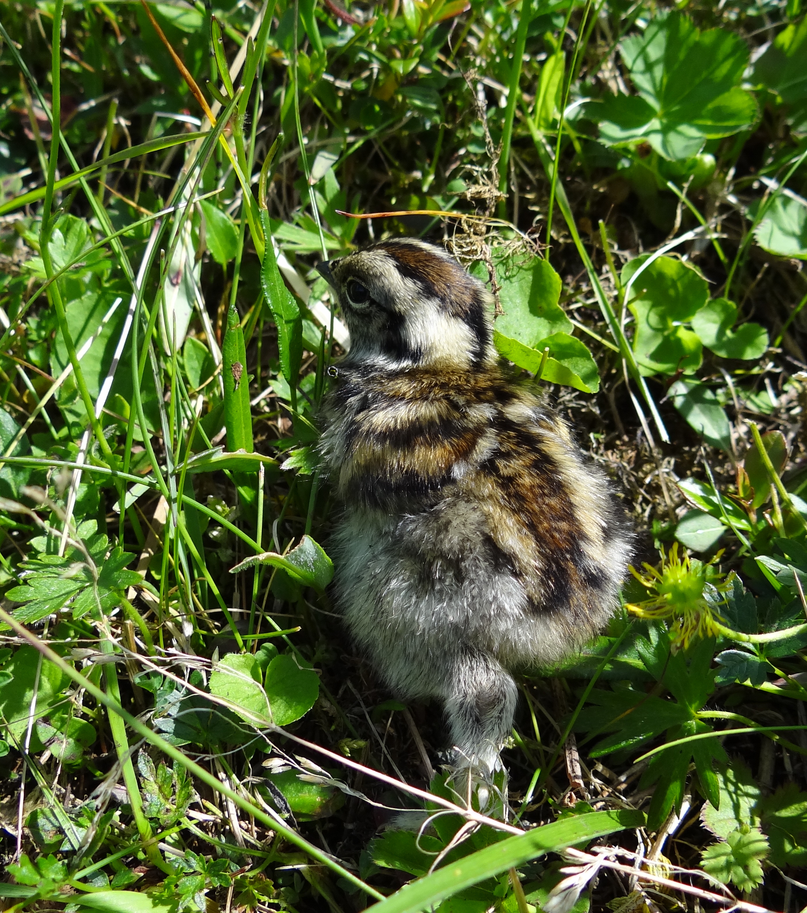 A rock ptarmigan chick photographed in Rohkunborri national park in July 2011.